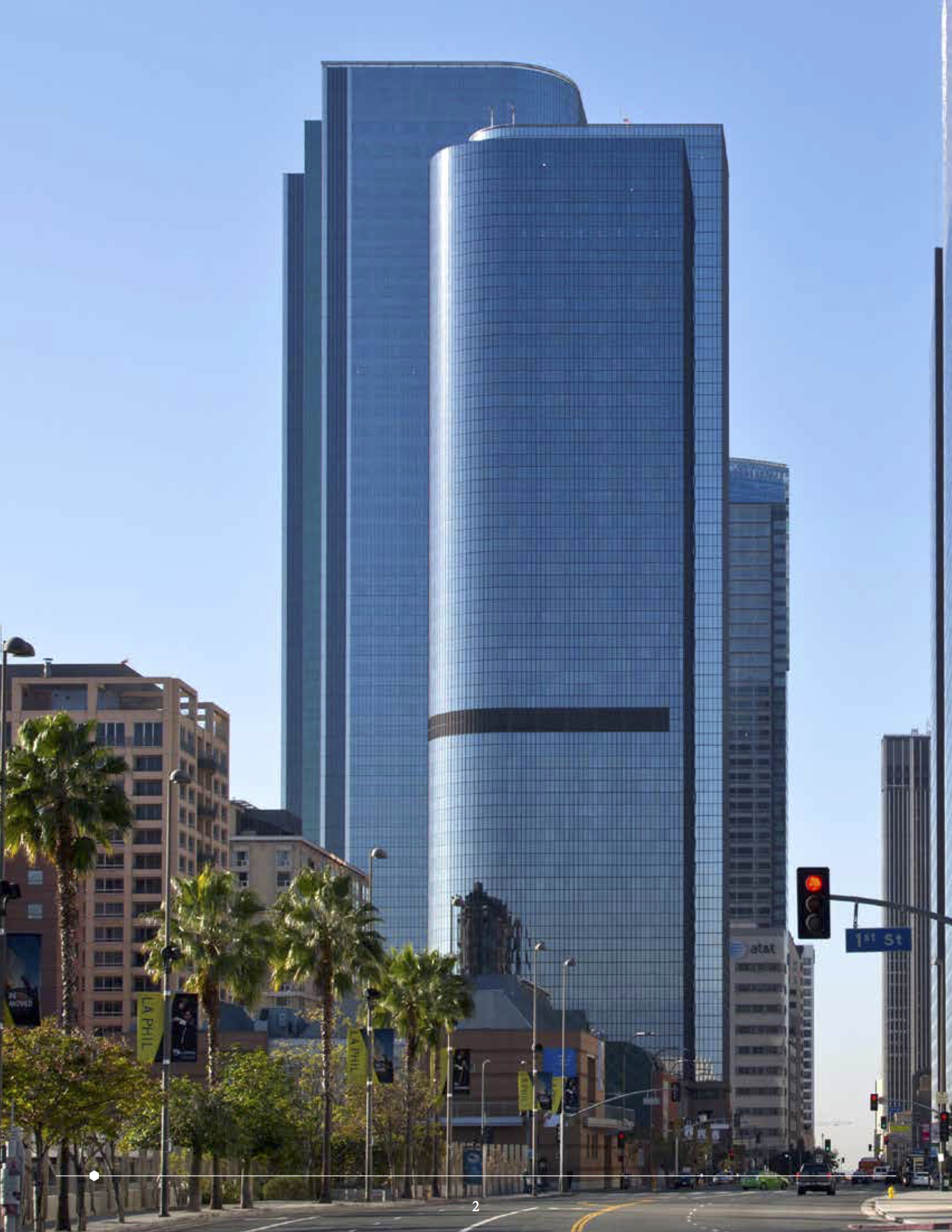 View of 1Cal from Grand Avenue